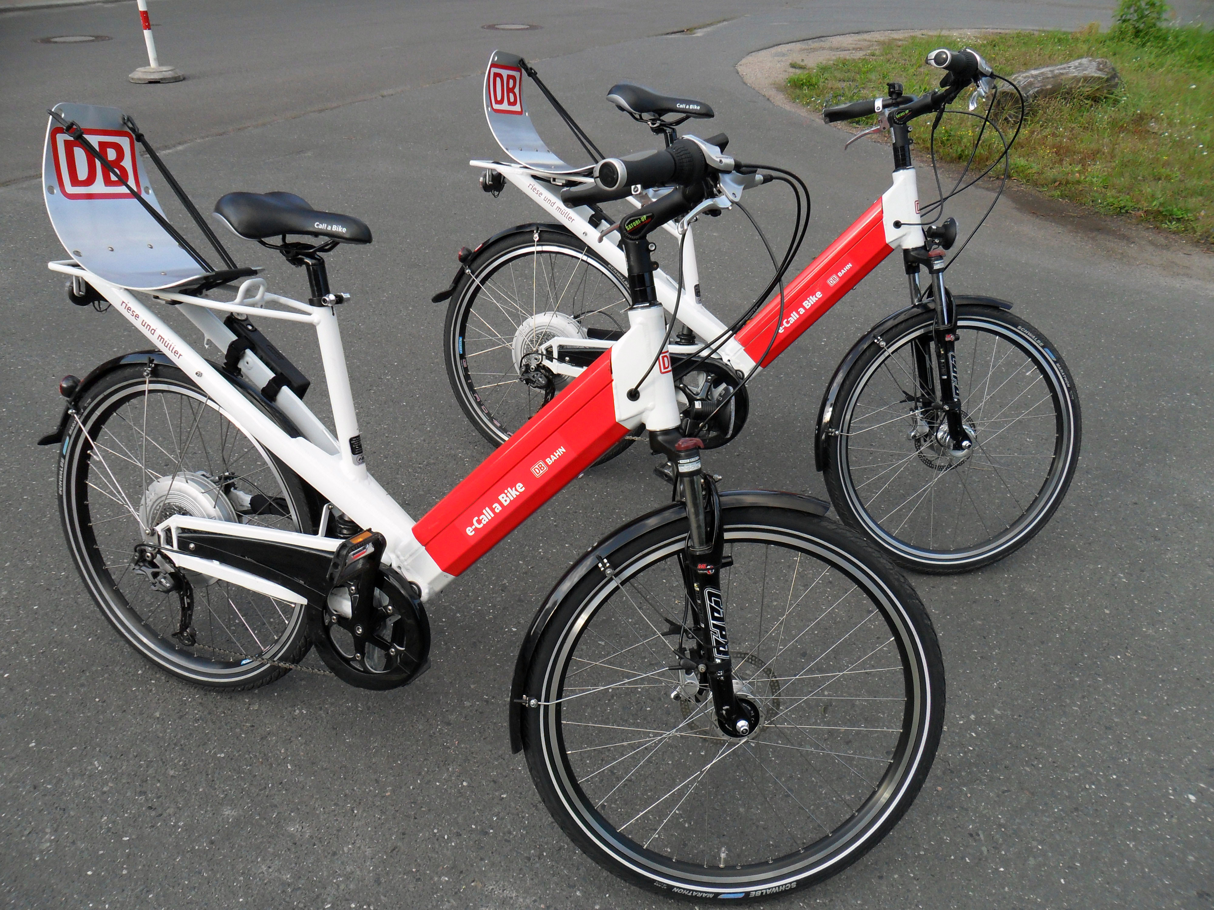 Two electric bicycles (pedelecs), designed for e-call a bike by the german railway (Deutsche Bahn) in Berlin